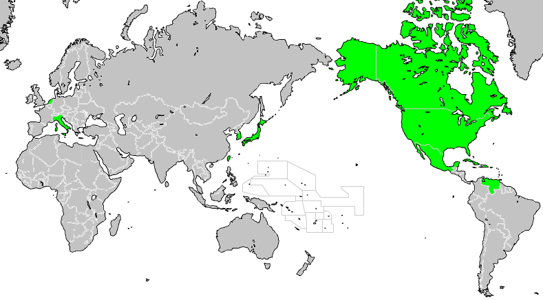 Competing baseball teams at the 2015 Premier 12.